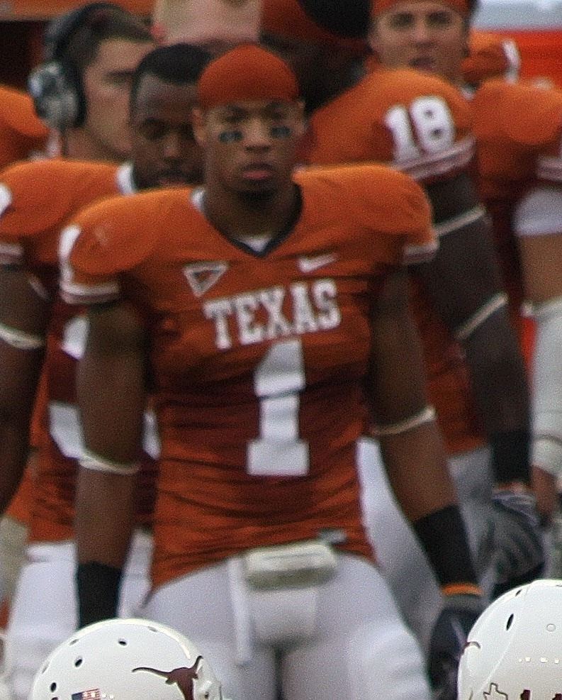 Texas Longhorns linebacker, Keenan Robinson, in 2009.